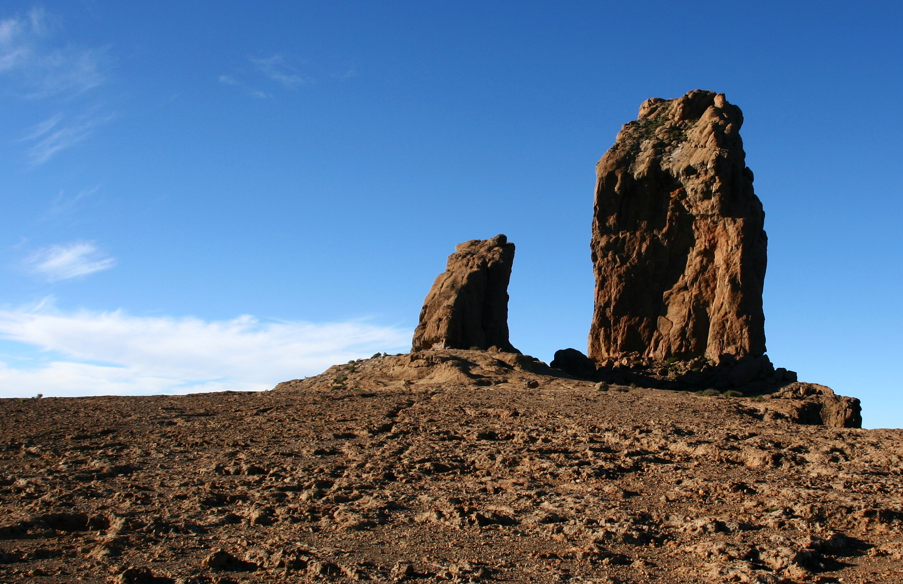 Roque Nublo, Gran Canaria, Canary Islands. Spain.